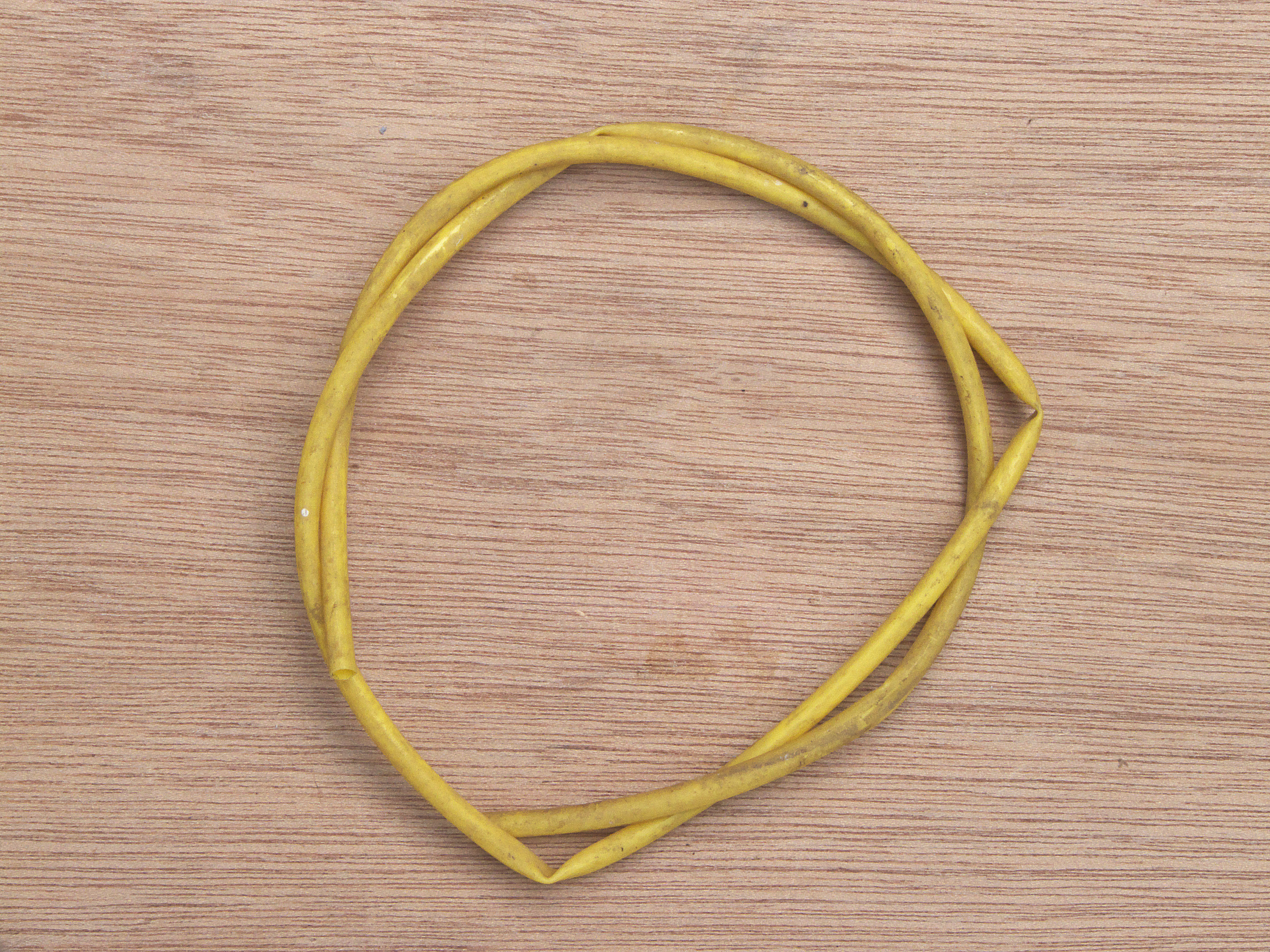 String tube 6 mm diameter